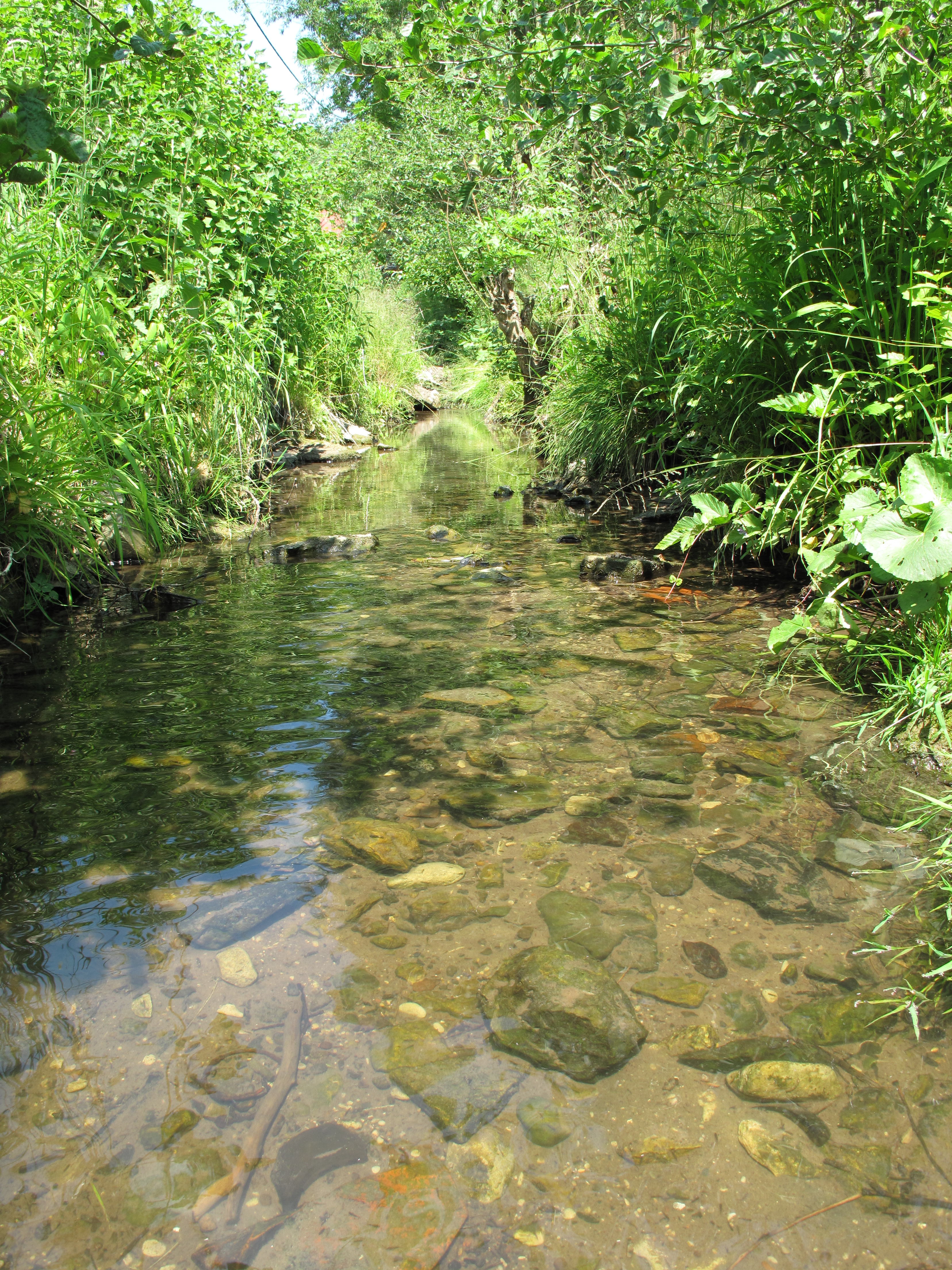 Václavský Stream in Václaví village, Semily District, Czech Republic.